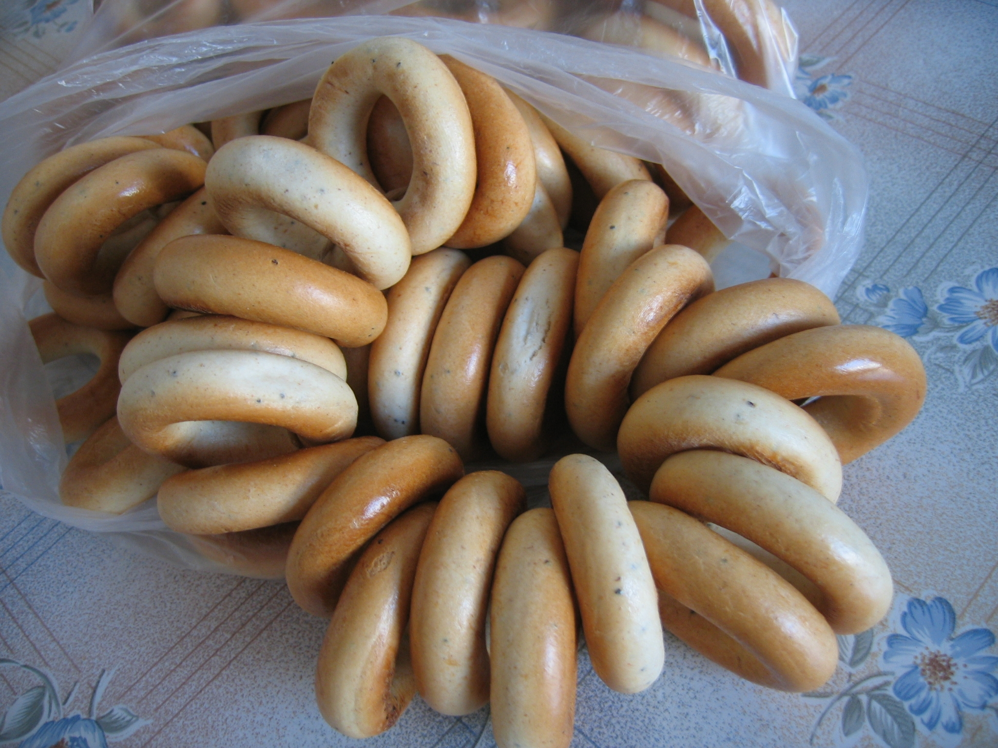 Russian Baranki (or Sushki)